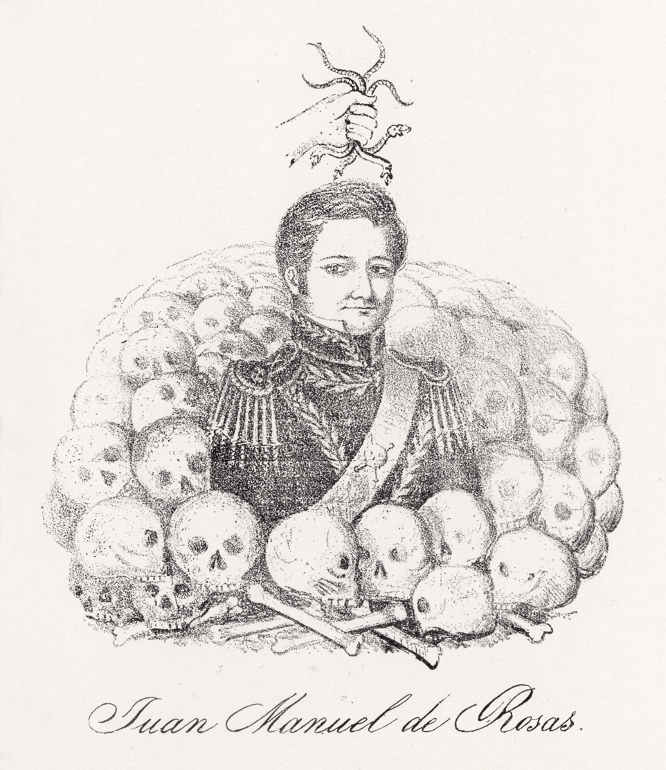 Caricature of Juan Manuel de Rosas in Muera Rosas, a weekly newspaper published in Montevideo (Uruguay) between 23 December 1841 and 9 April 1842